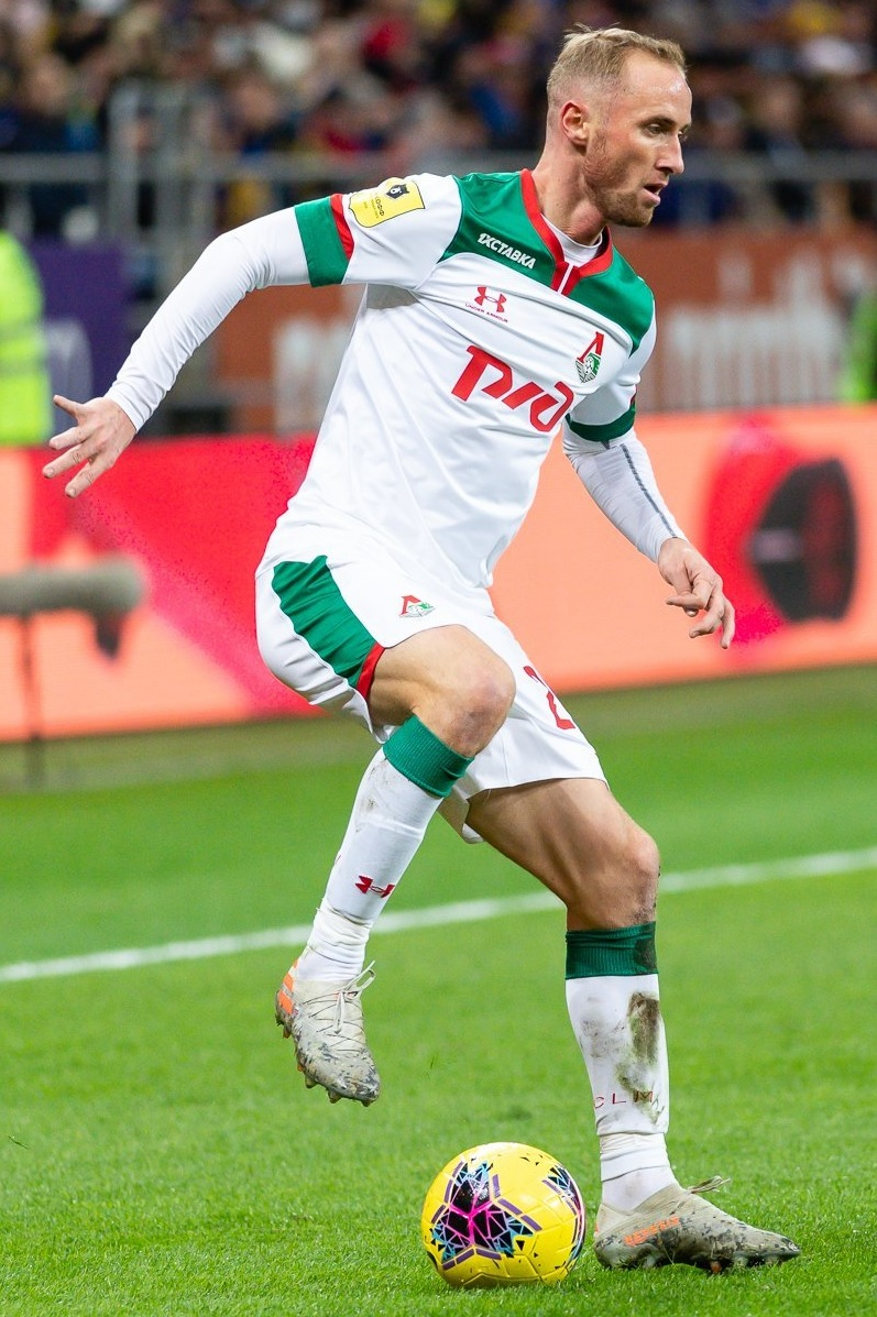 Vladislav Ignatyev with FC Lokomotiv Moscow in a game against FC Rostov.